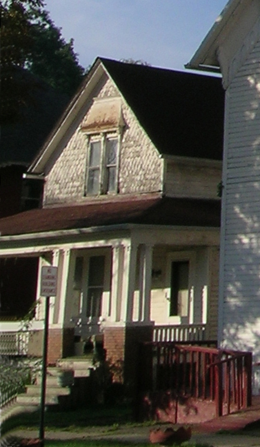 Gethsemane Evangelical Lutheran Rectory Detroit MI